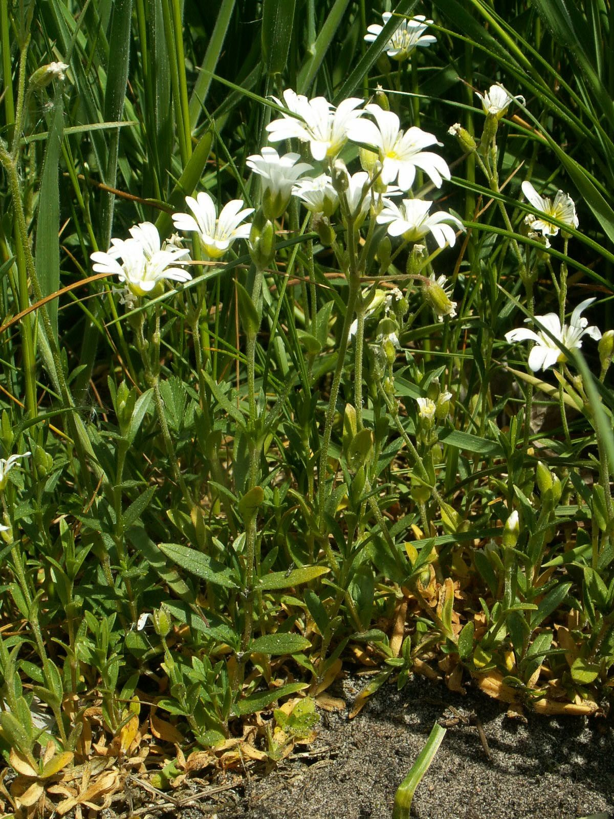 Cerastium arvense. Meadow in Buk near Szczecin, NW Poland